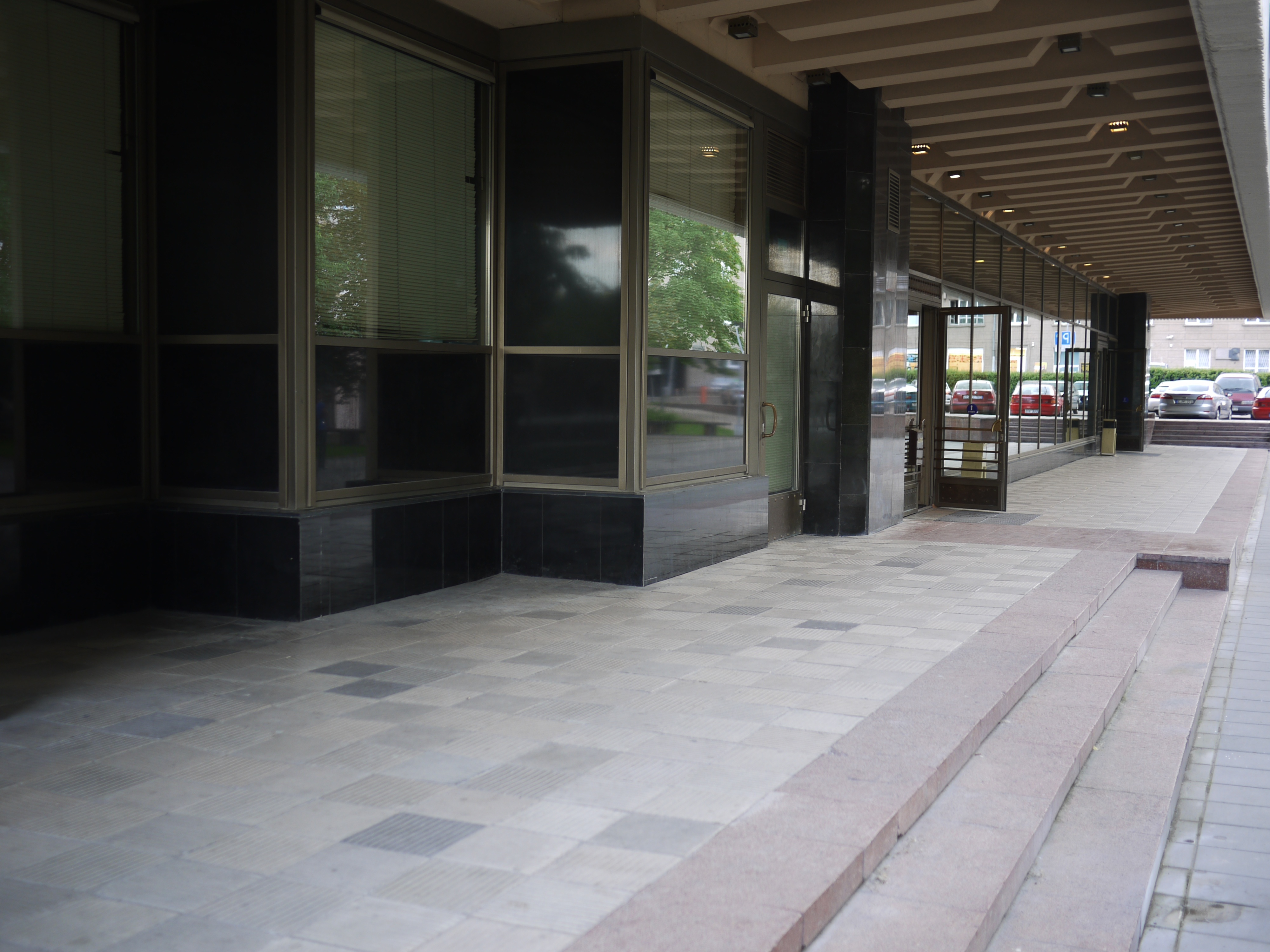 Opera House Box Office